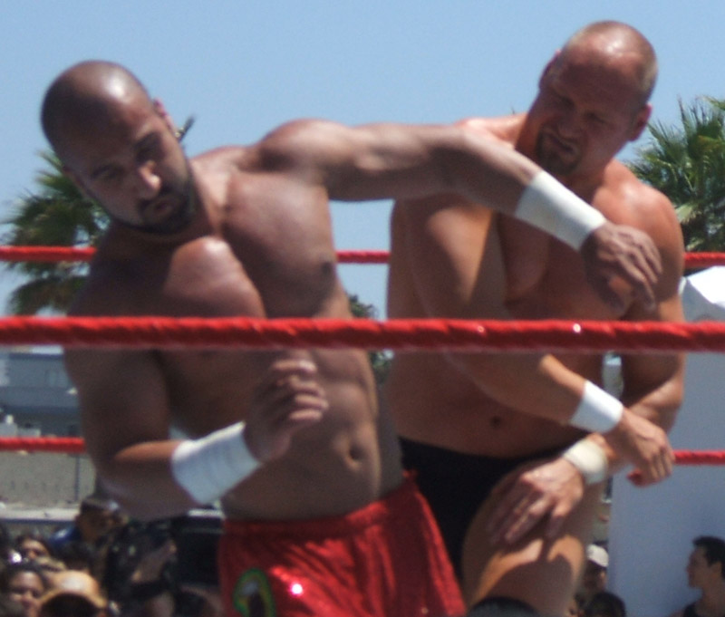 Daivari after taking a shot from Val Venis. Image taken by me on 18 August 2007 at a Summer Slam promo held at Venice Beach. WTStoffs 21:24, 18 August 2007 (UTC)